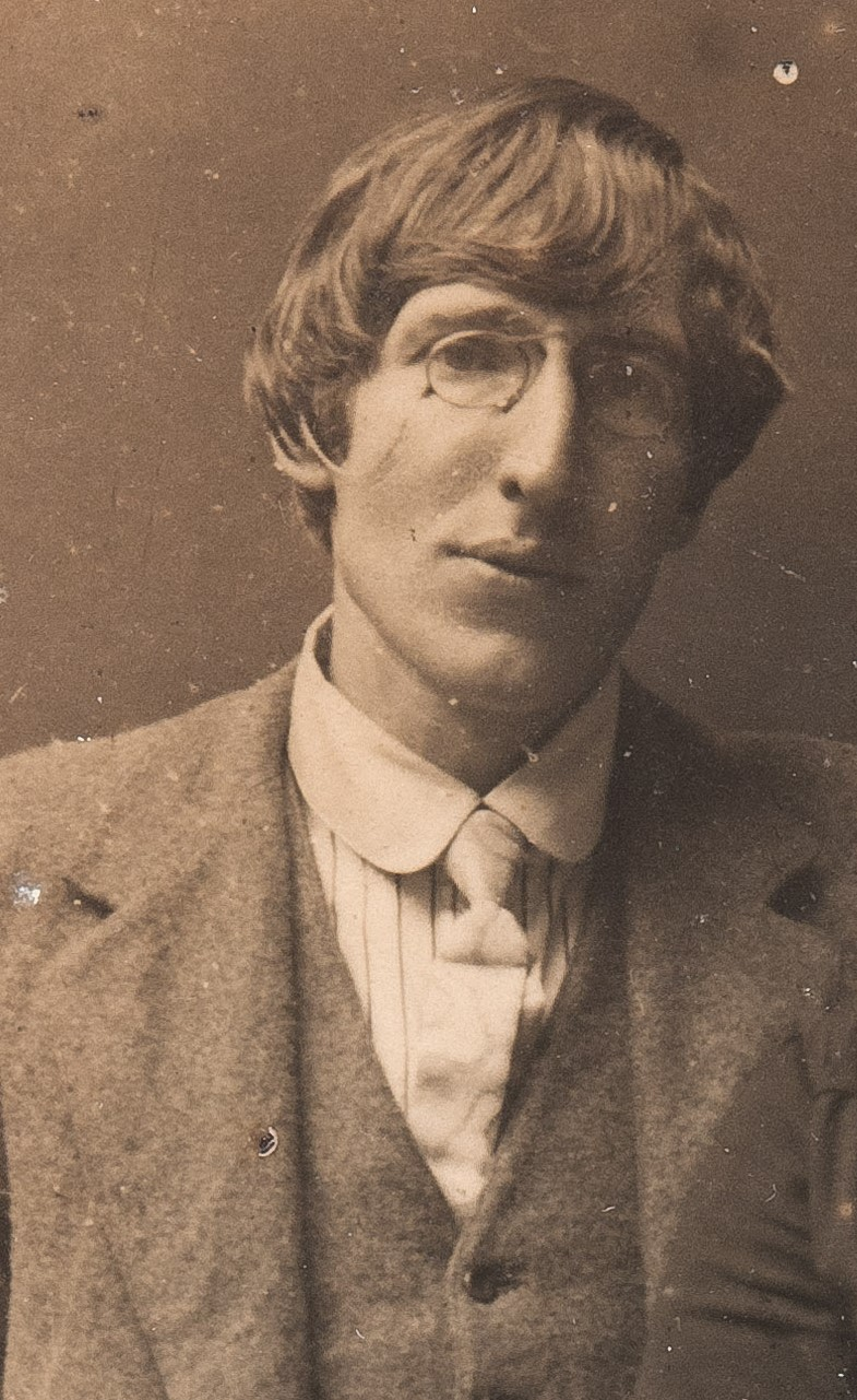 Portrait of Nikolai Astrup. Cropped image